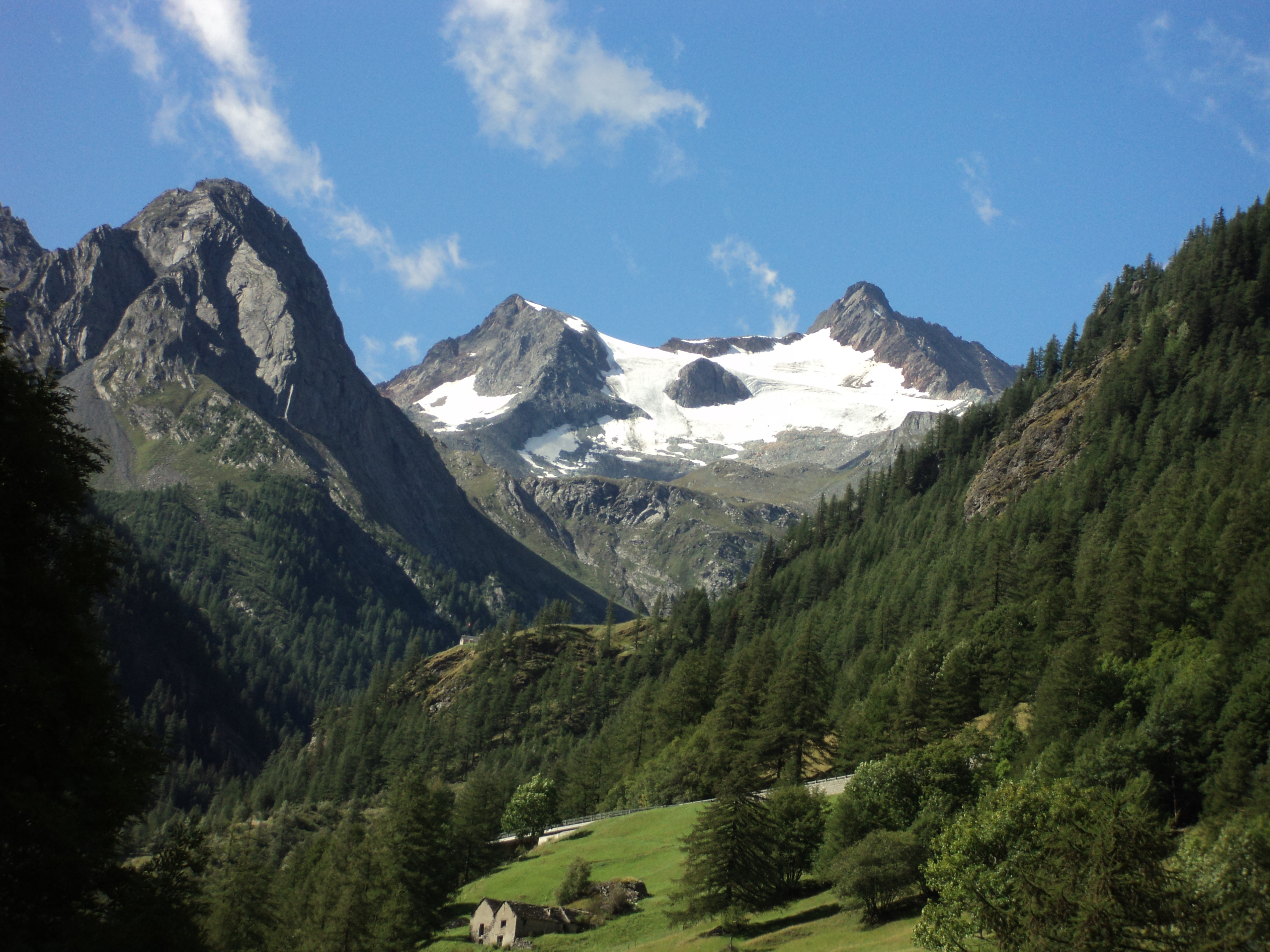 Grauhorn (left), Tossenhorn (centre right) and Tällihorn (right) from Laggintal